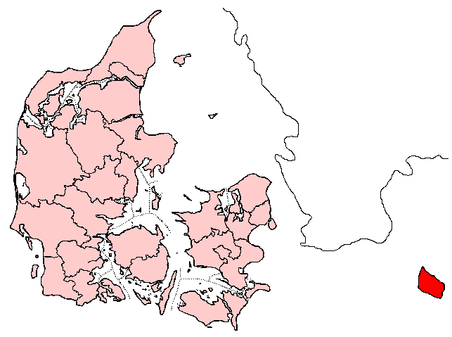 Map of Bornholm County 1793-1970